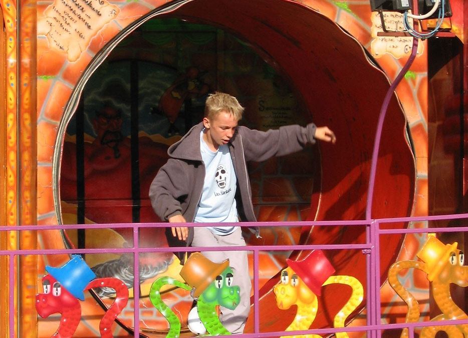 Rotating drum in Cambridge Midsummer Fair 2005